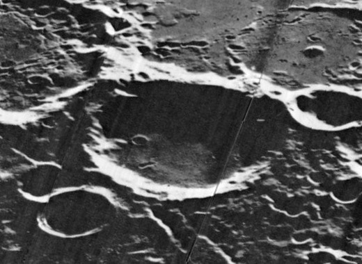 Oblique view of Abbe, on the far side of the moon, facing west.